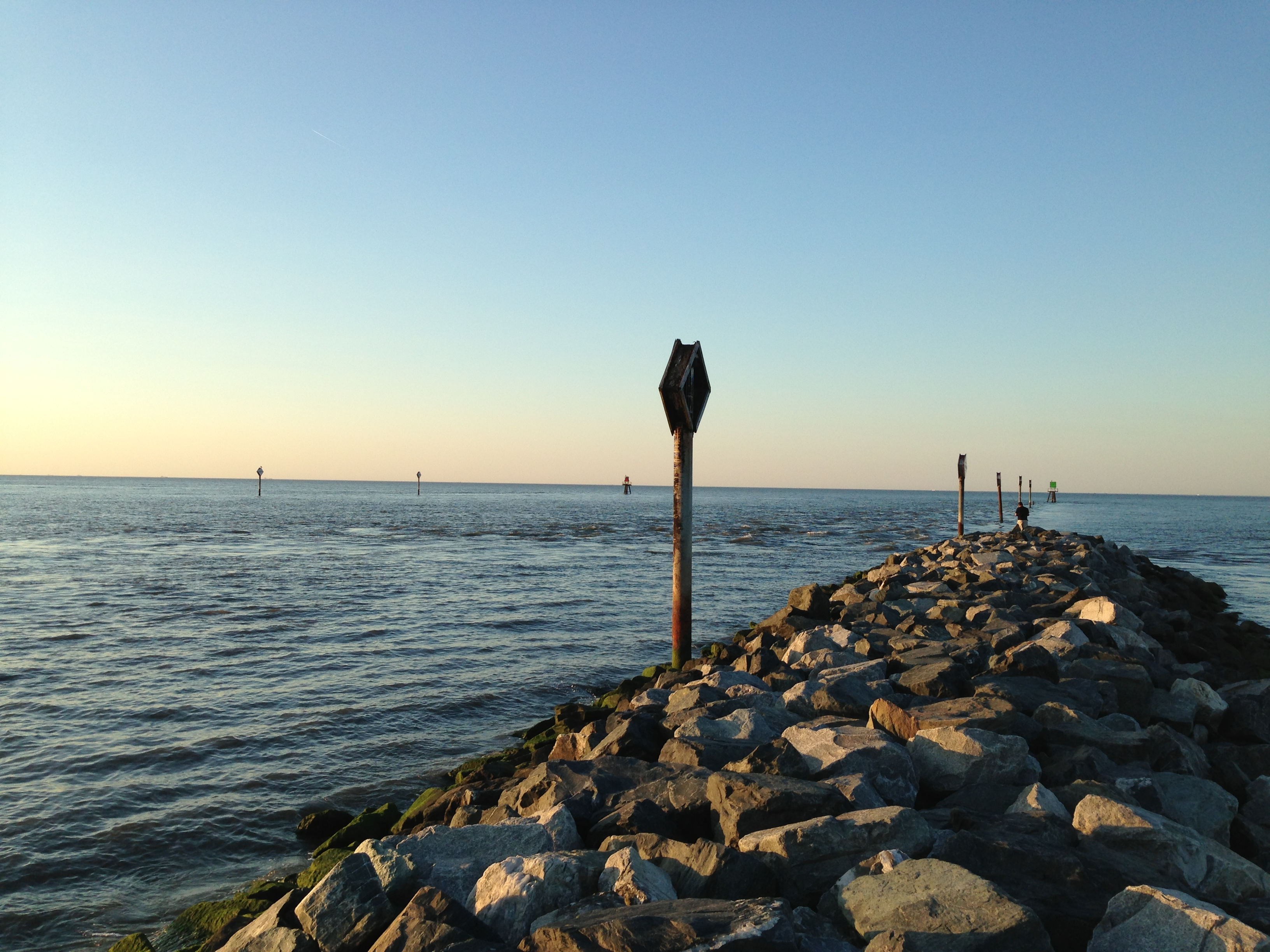 Roosevelt inlet facing the Delaware Bay